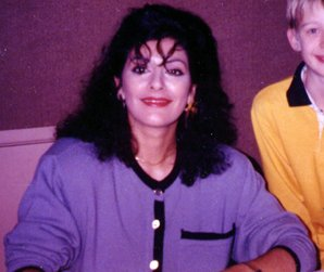 British actress Marina Sirtis at a Star Trek convention in the early 1990s.